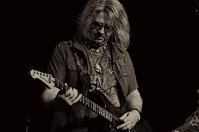 Marc Bonilla - Session Musician for Glenn Hughes, California Transit Authority, and Keith Emerson (photo by Scott Dudelson)